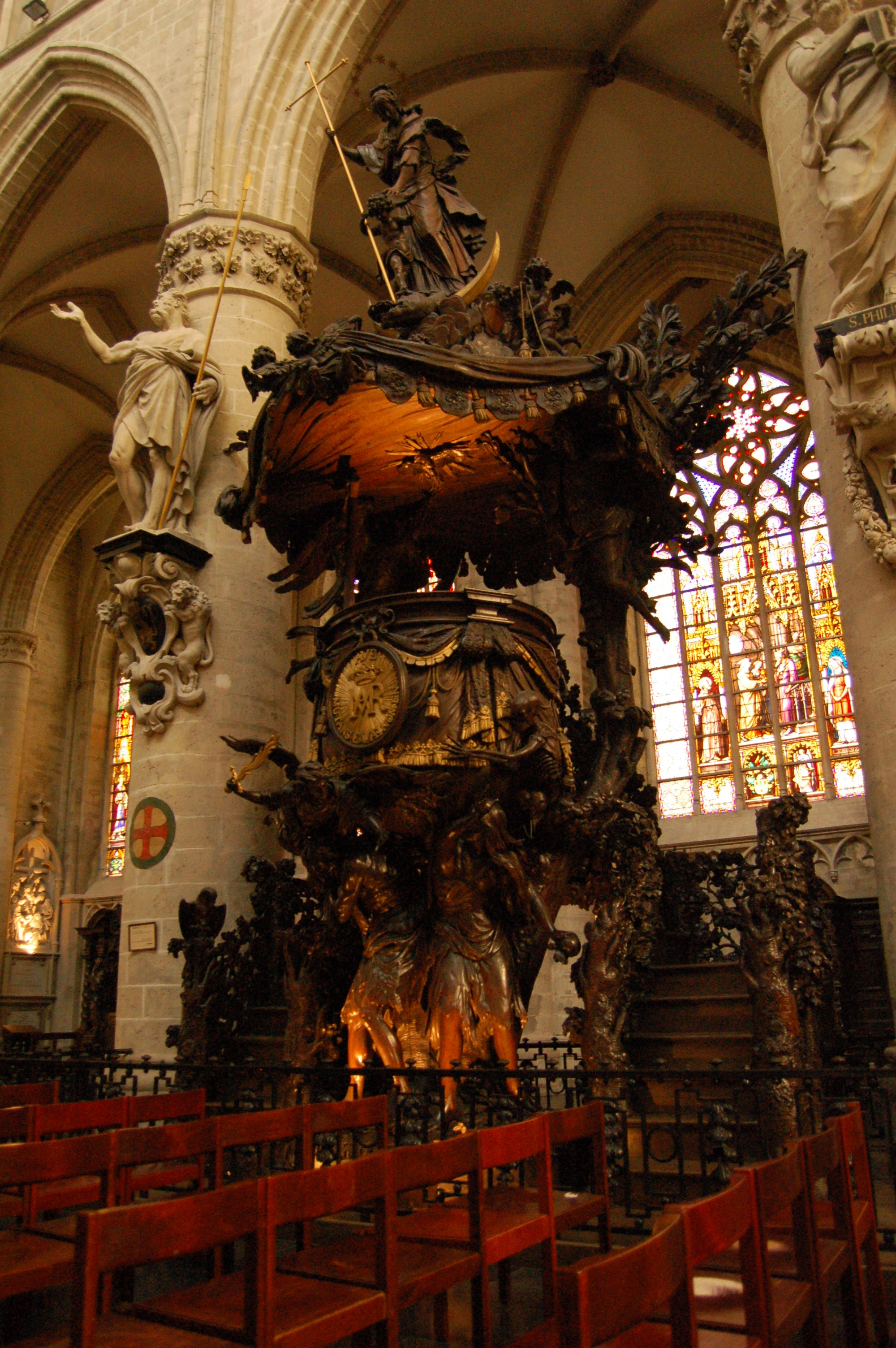 St. Michael and St. Gudula Cathedral - pulpit, work of Hendrik Frans Verbruggen